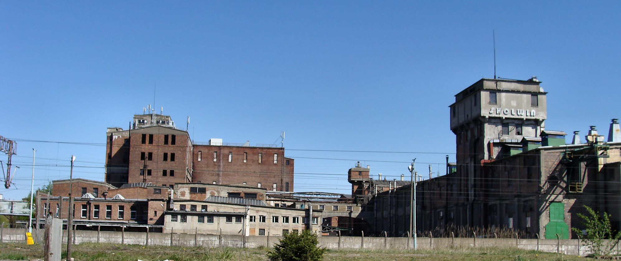 Skolwin paper mill